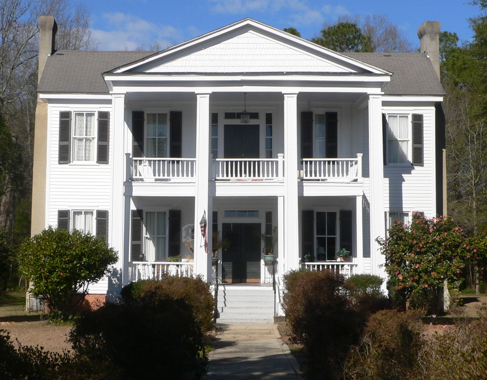 James Carnes house, located at 200 S. Main Street in Bishopville, South Carolina.